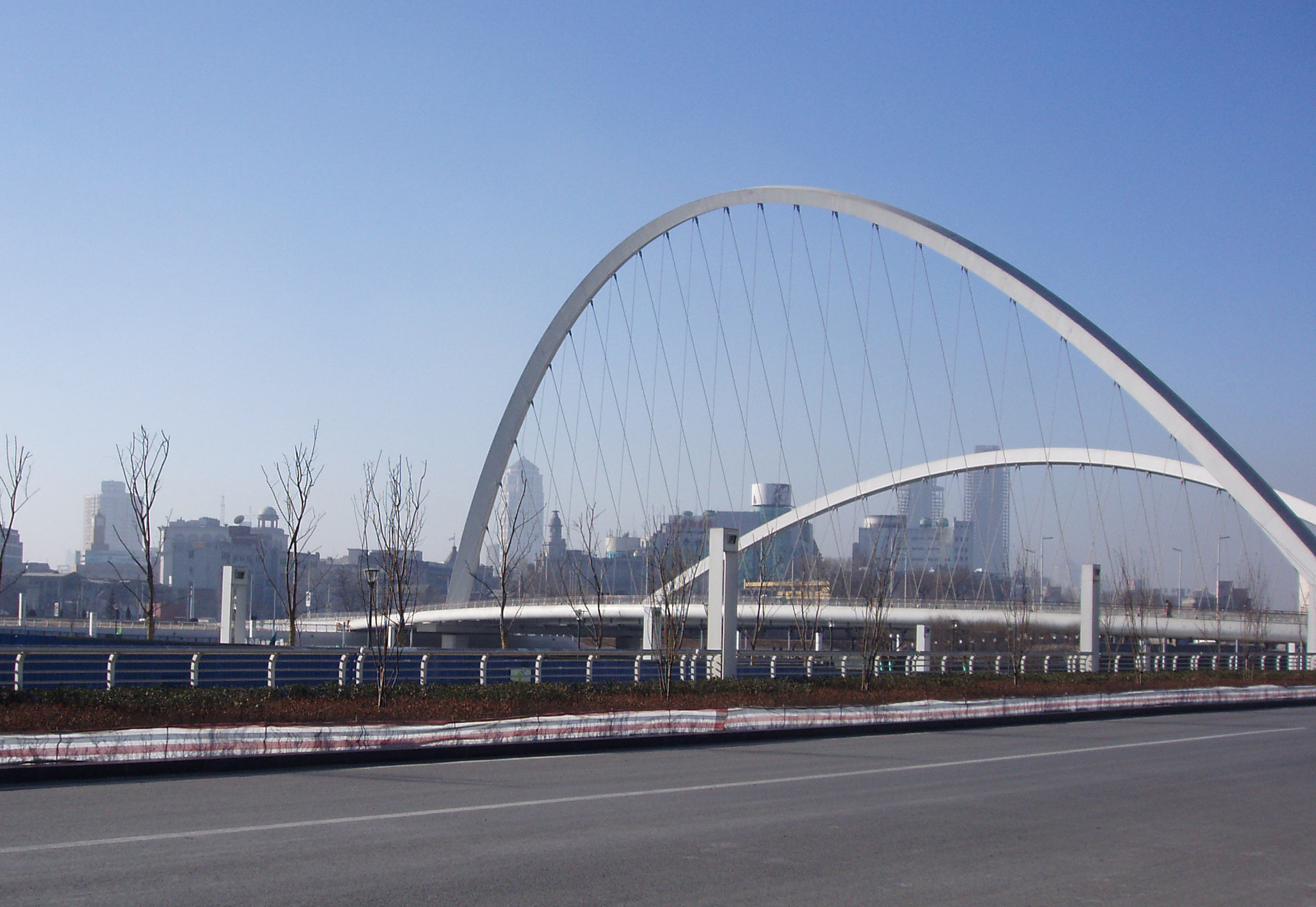 Dagu Bridge on Haihe river in Tianjin, China